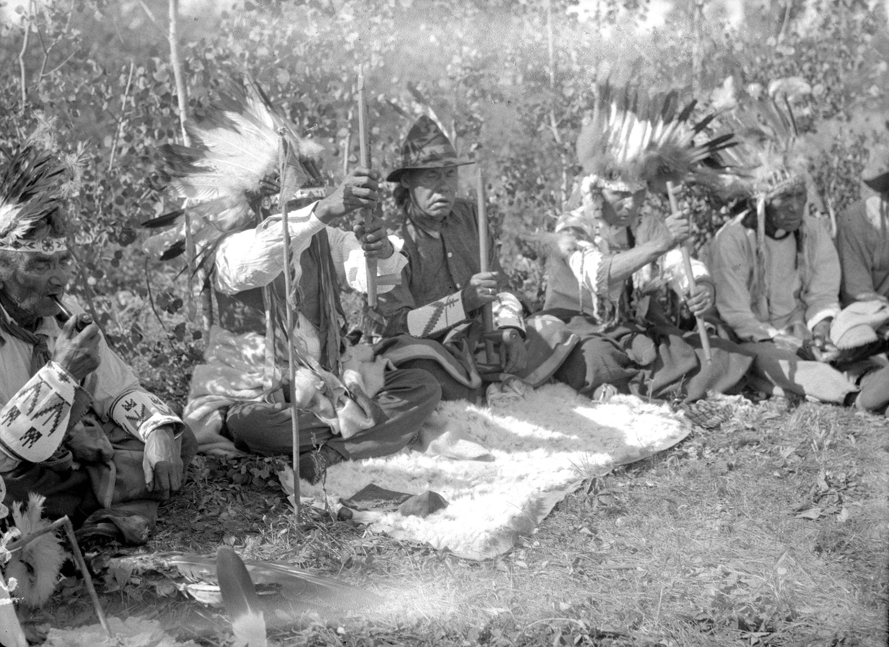 From the Paul Coze fonds, PR2006.0508/34.